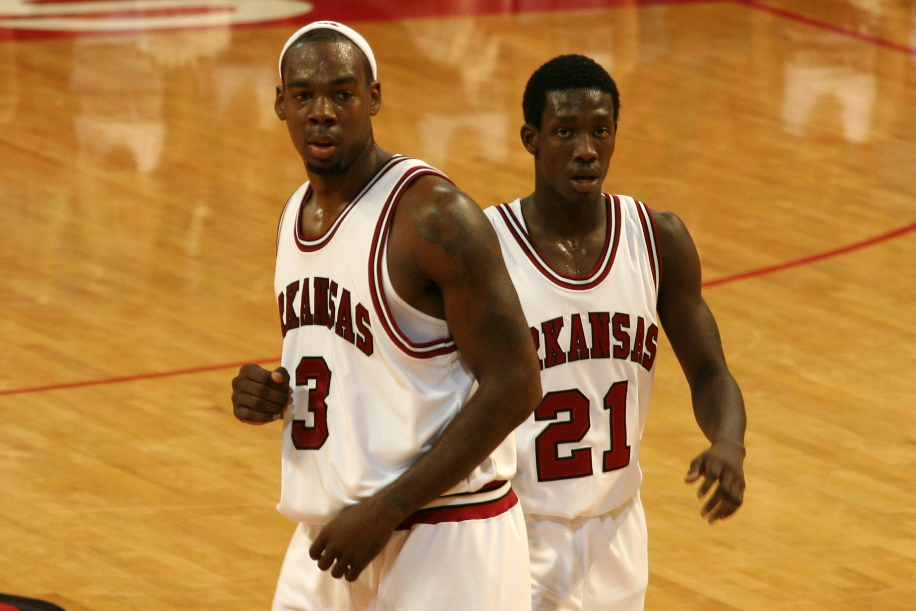 Razorbacks junior forward Charles Thomas (3) and freshman guard Patrick Beverley (21).